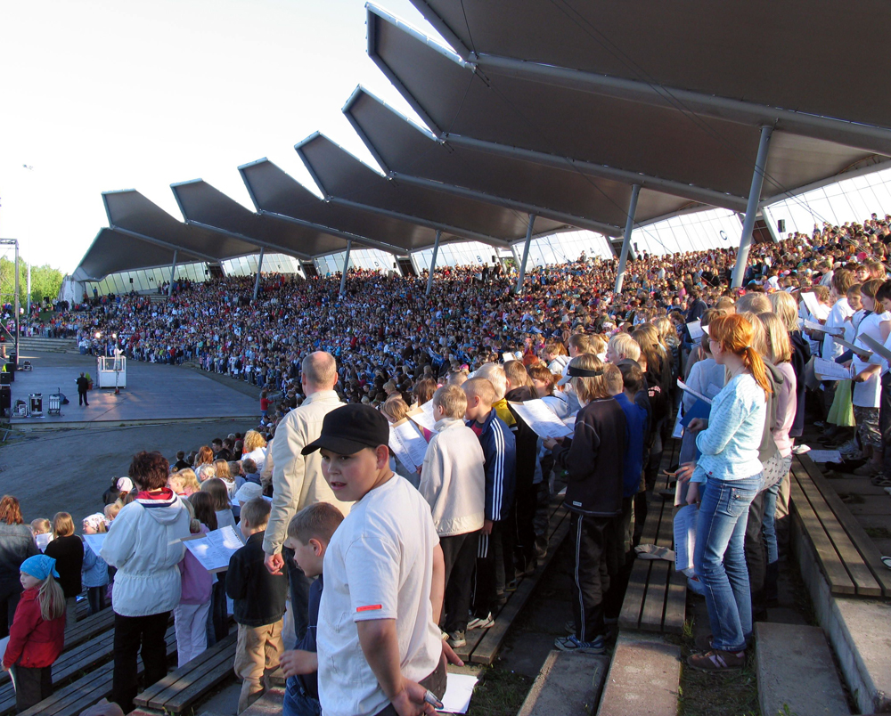 Joensuu Laulurinne Summer Festival Centre